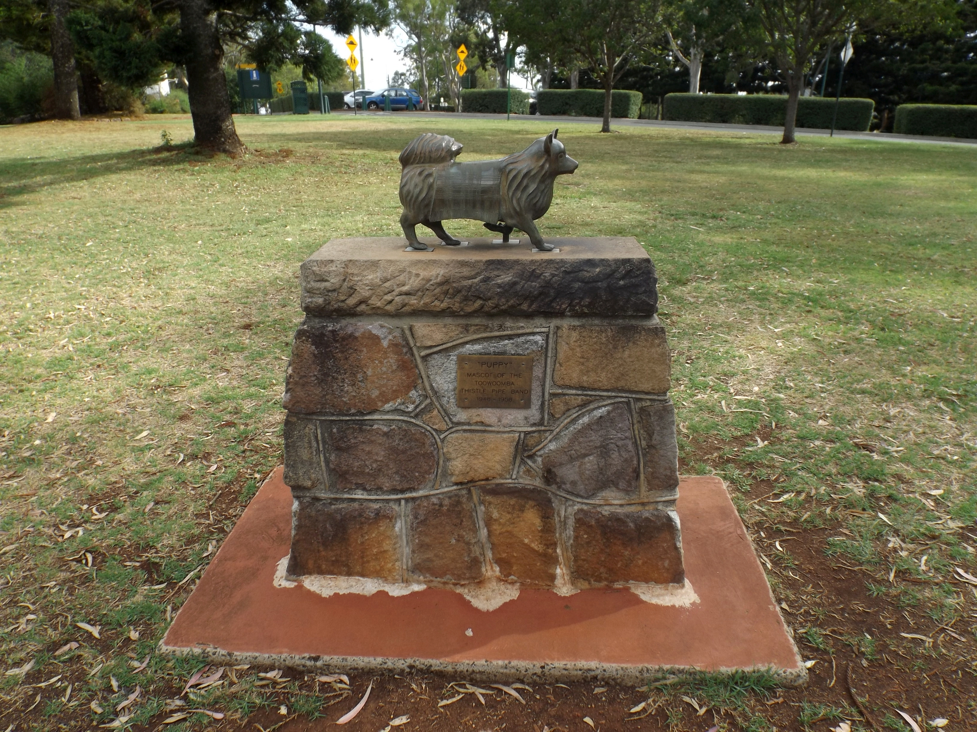 Photo of memorial to "Puppy" mascot for the Toowoomba Thistle Pipe Band at Picnic Point in Rangeville, Toowoomba, Queensland, Australia.